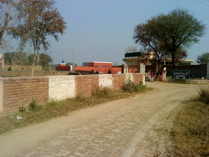 This is school way sean